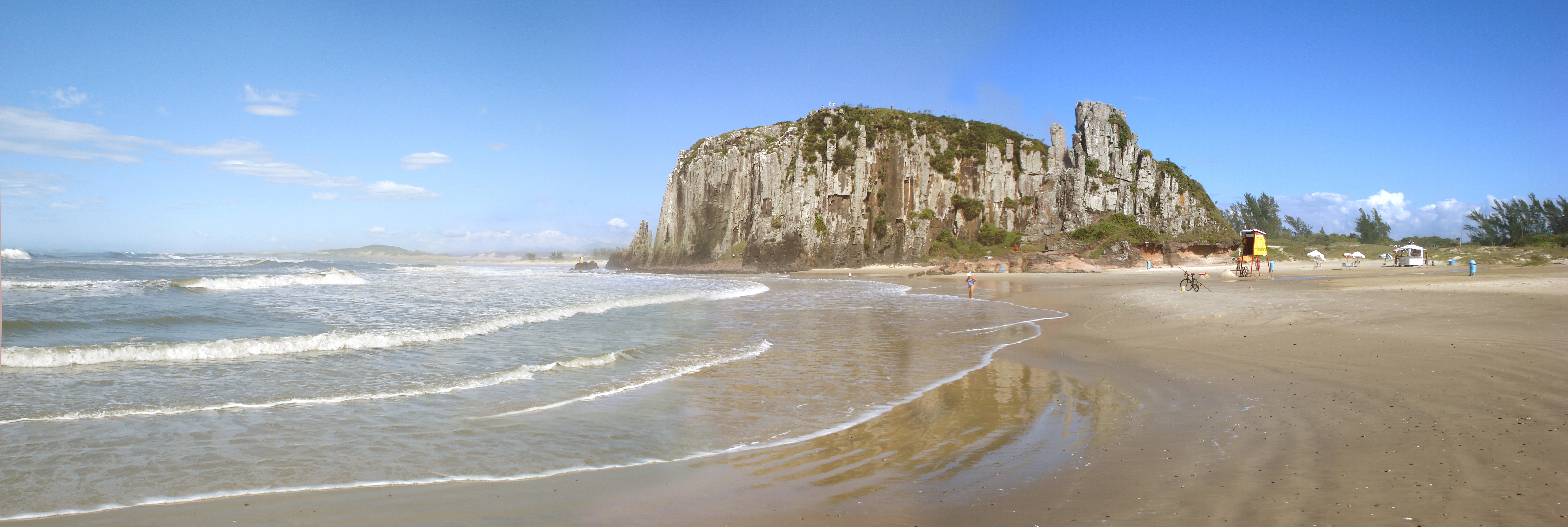 Beach of Guarita, health-resort of Towers, Brazil.